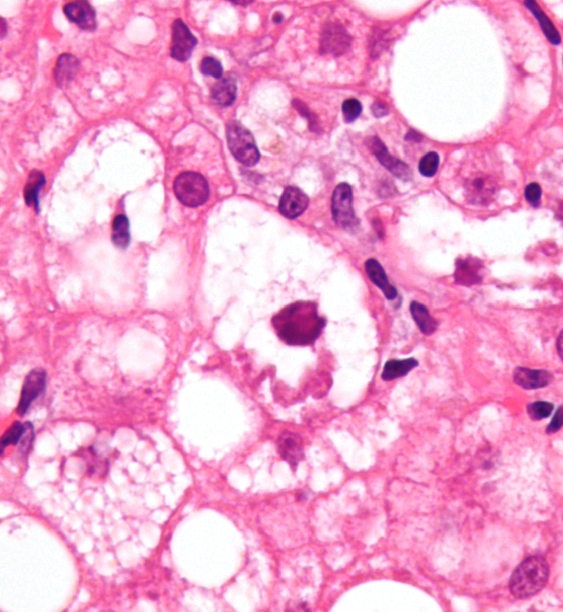 High magnification micrograph of a Mallory body, as seen in steatohepatitis. Liver biopsy. H&E stain. Mallory bodies are eosinophilic cytoplasmic inclusions that are aggregates of denatured keratin filaments. They have a twisted rope-like appearance. On trichrome stain they are green/dark brown. Associations (histologic): They often have neutrophils around them. They frequently are seen in hepatocytes undergoing ballooning degeneration.